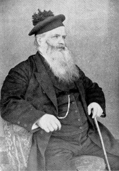 Alexander Barratt, the father of Thomas Ball Barratt. english: Thomas Ball Barratt norwegian: Thomas Ball Barratt